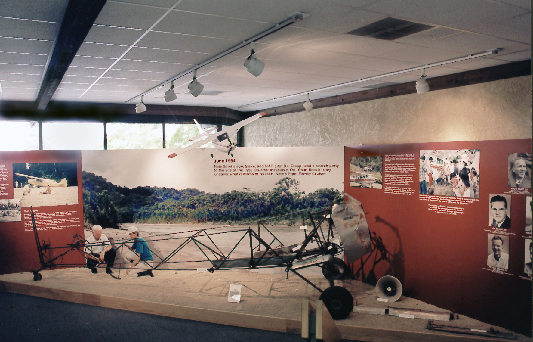 The reconstructed frame of Nate Saint's plane used in Operation Auca and other missionary work in Ecuador in the 1950s. Currently on display at the headquarters of the Mission Aviation Fellowship.